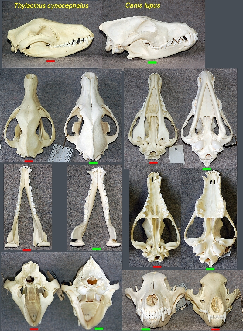 Copy of a skull of Thylacinus cynocephalus and original skull of Canis lupus, Museum Wiesbaden Naturhistorische Landessammlung, Germany